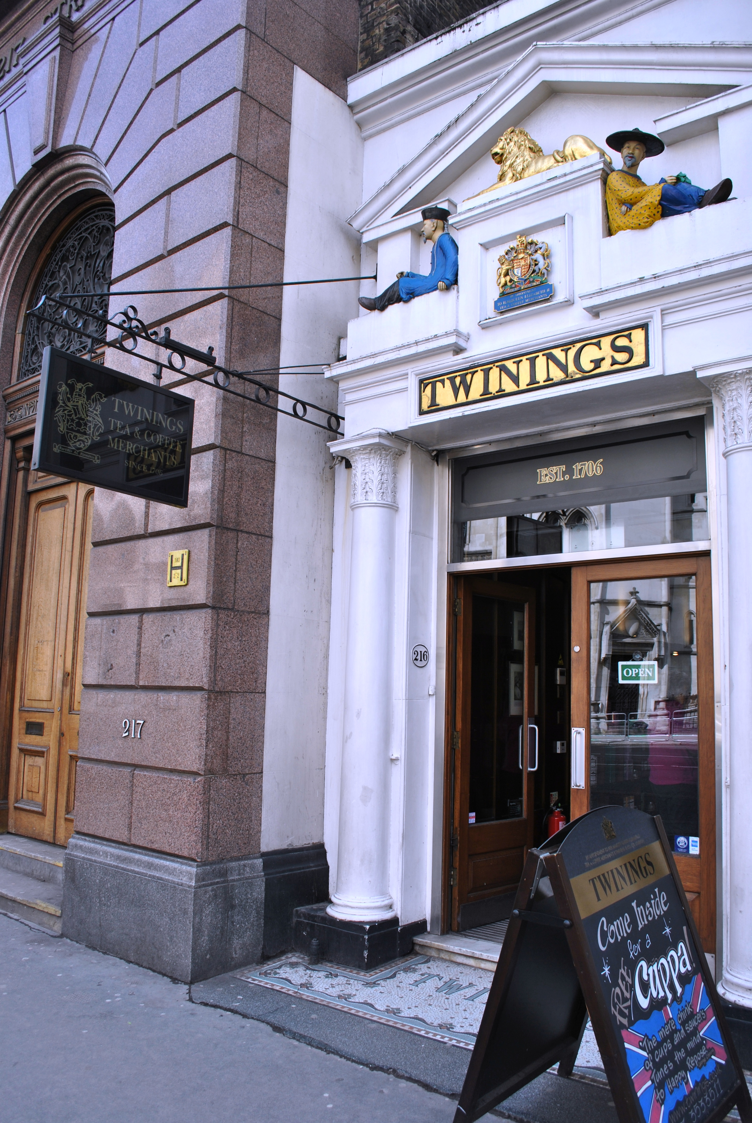 Twinings